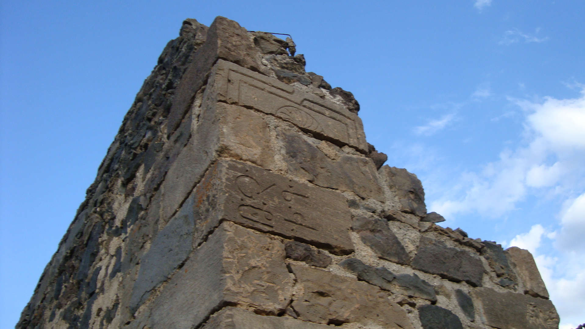 A former school in Tsar. The school was built from the Armenian cross-stones. An increase, on the rocks you can see the ornaments and crosses. Shahumian district, Republic of Mountainous Karabakh.